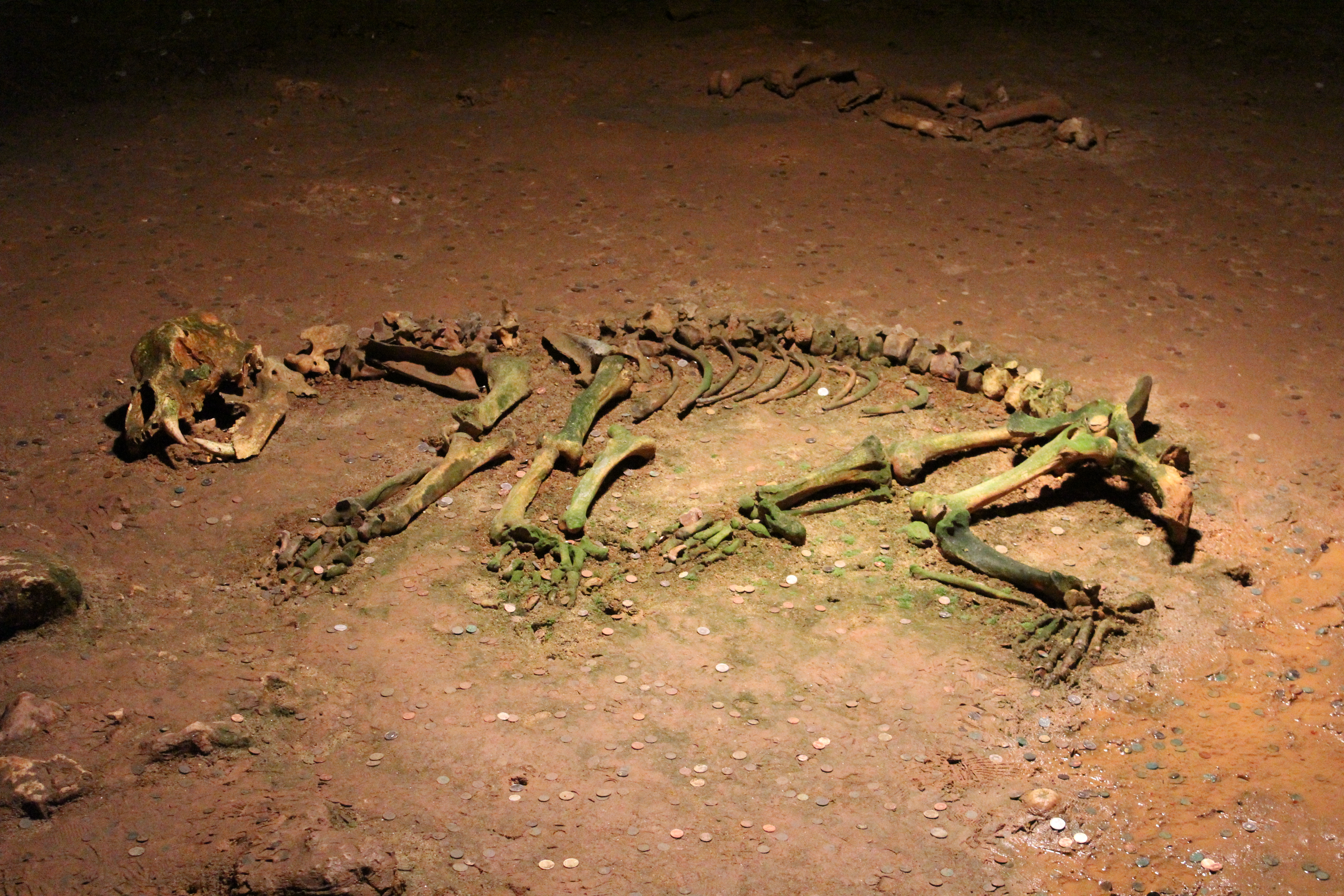 Skeleton of a cave bear (Ursus spelaeus) in the Bear Cave (Chișcău, Romania).